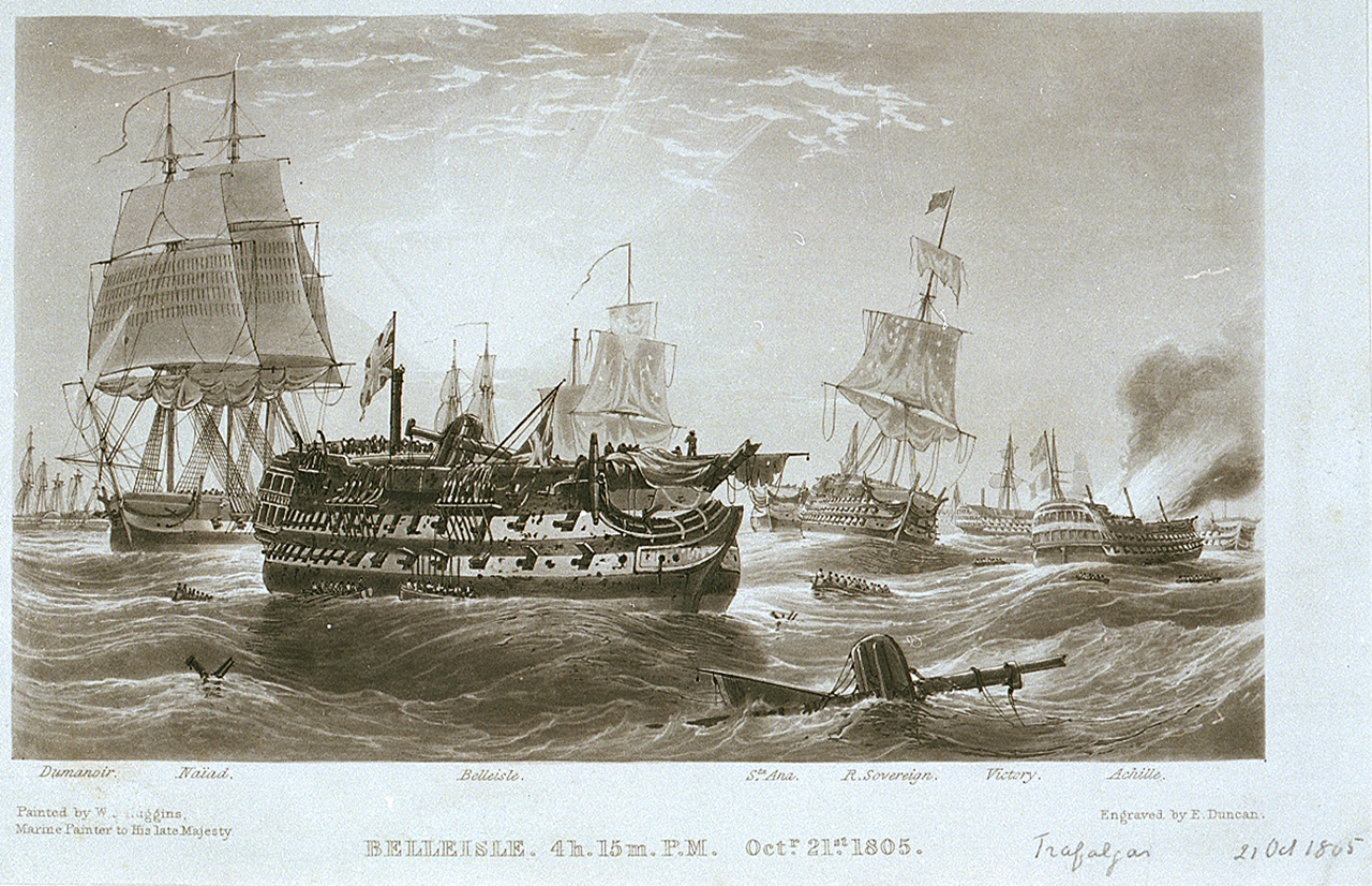 Belleisle 4h. 15m. P.M. Octr 21st 1805 Dumanoir. Naiad. Belleisle. Sta Ana, R.Sovereign. Victory. Achille